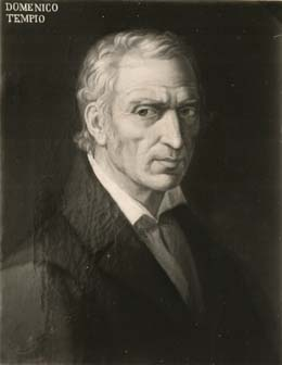 Portrait of the Sicialian poet Domenico Tempio